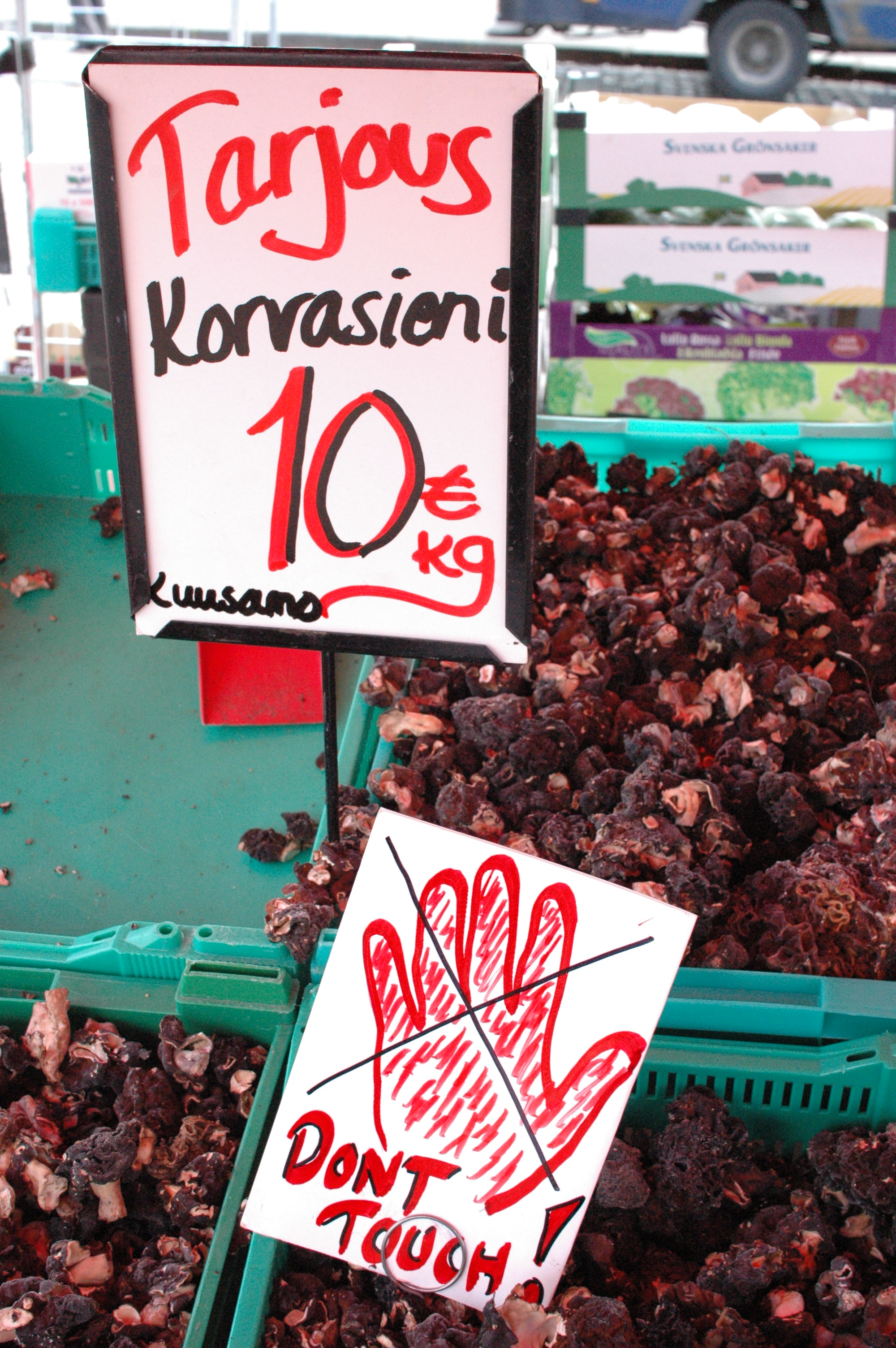 False morel fungi (Gyromitra esculenta) for sale at the Helsinki market square. Though deadly poisonous unless properly parboiled, these mushrooms are considered a local delicacy, and Finnish law permits their sale fresh as long they are accompanied by conspicuous warnings and government-approved preparation instructions. The purpose of the big "Don't touch!" sign is presumably to make sure tourists won't try to grab samples to taste.